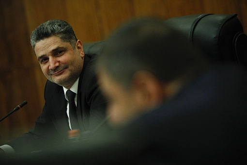 Portrait of Tigran Sargsyan from PAN Photo Agency archive